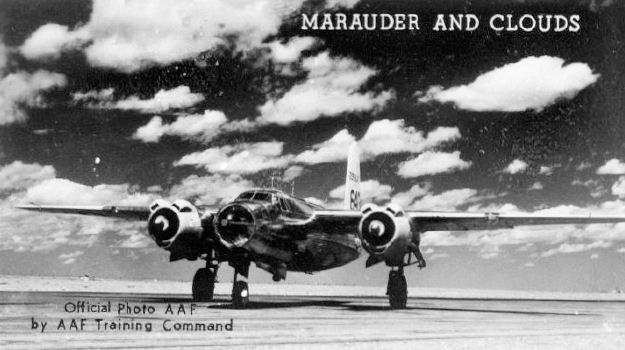 B-26 Marauder on ramp, Dodge City AAF, Kansas